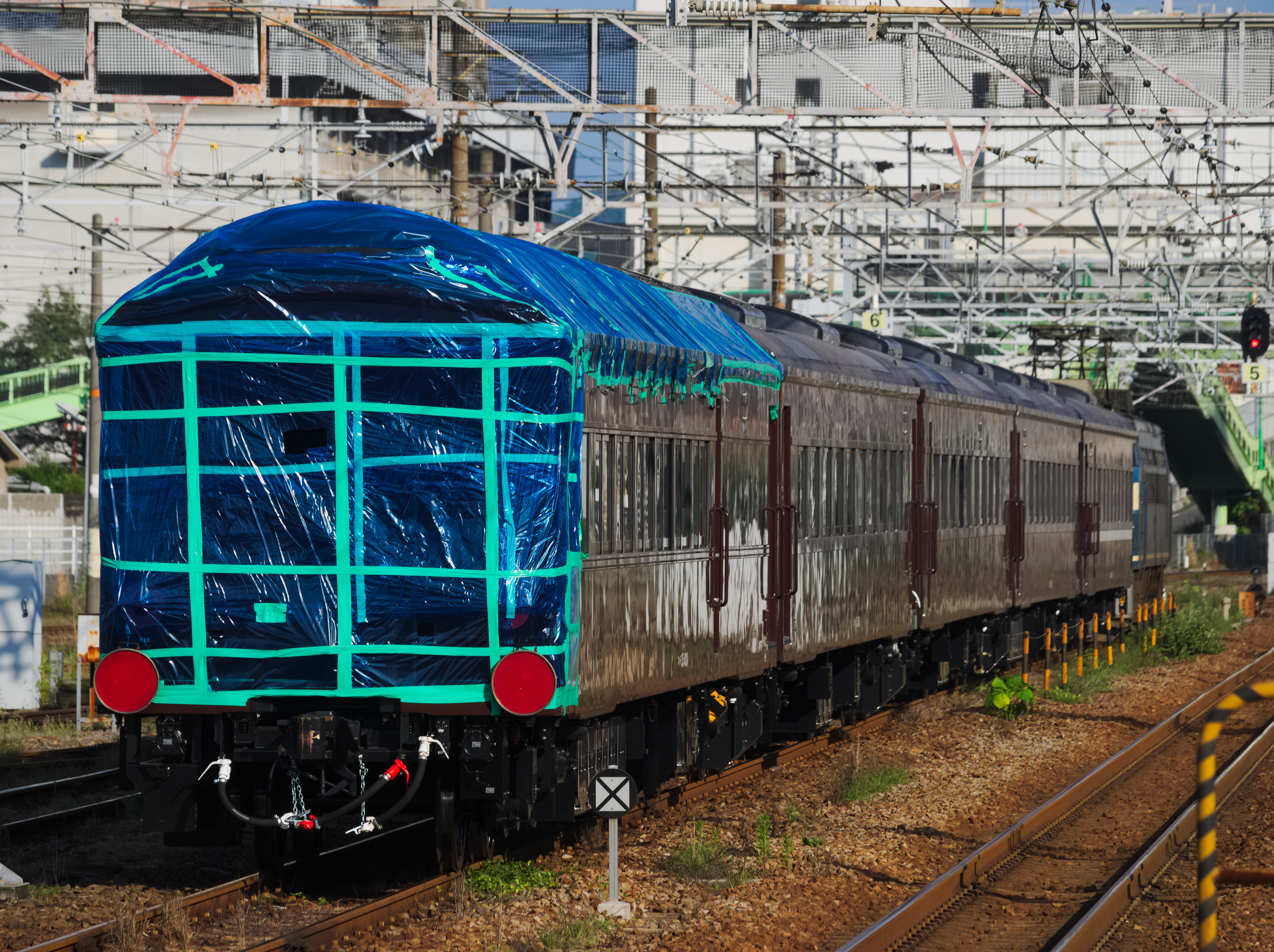 Five newly-built JR West 35-4000 series coaches for Yamaguchi steam-hauled services on delivery